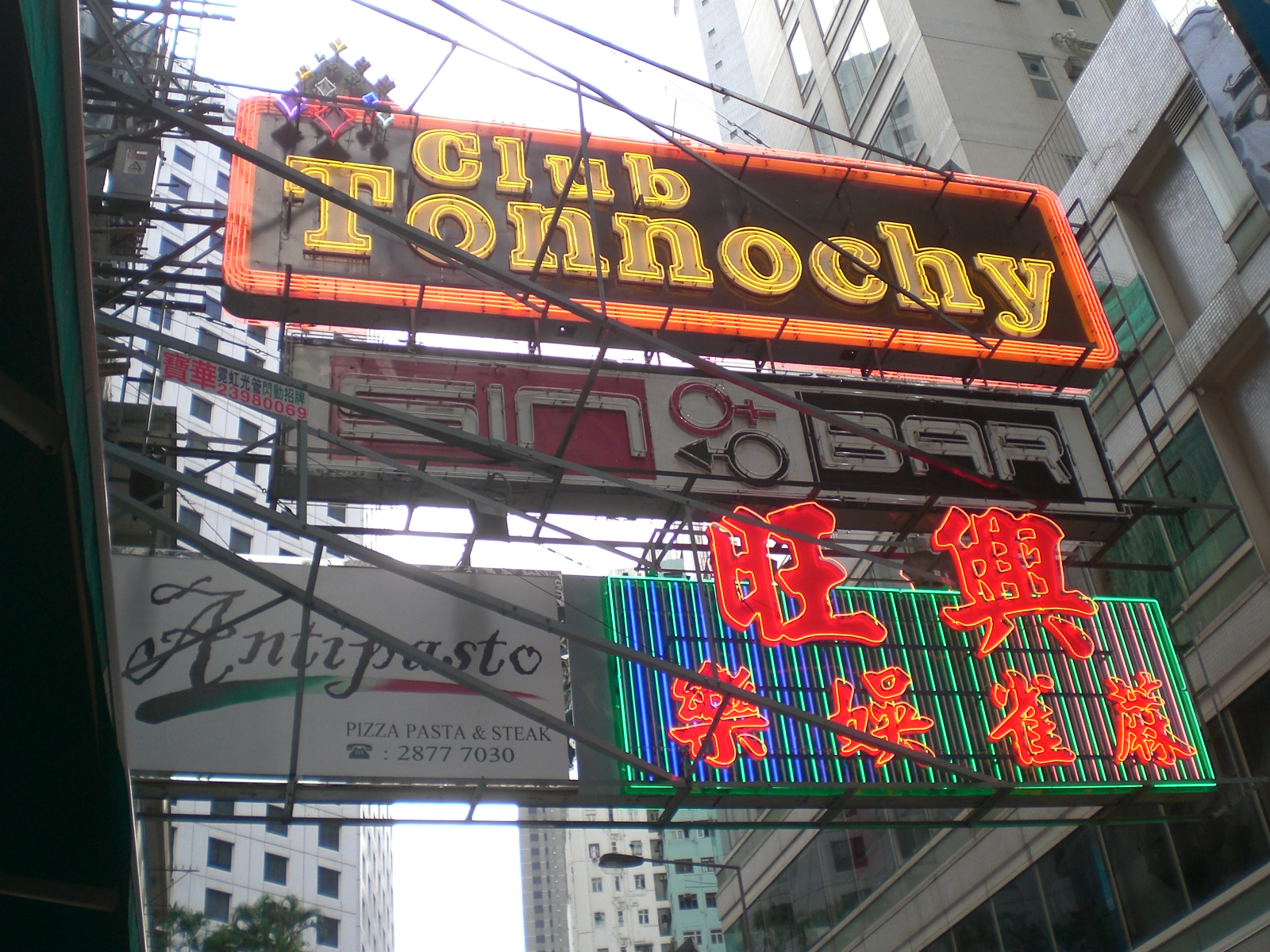 中文（香港）: 娛樂場所廣告招牌 @ 謝斐道與史釗域道交界, Stewart Road & Jaffe Road, Wan Chai, Hong Kong.